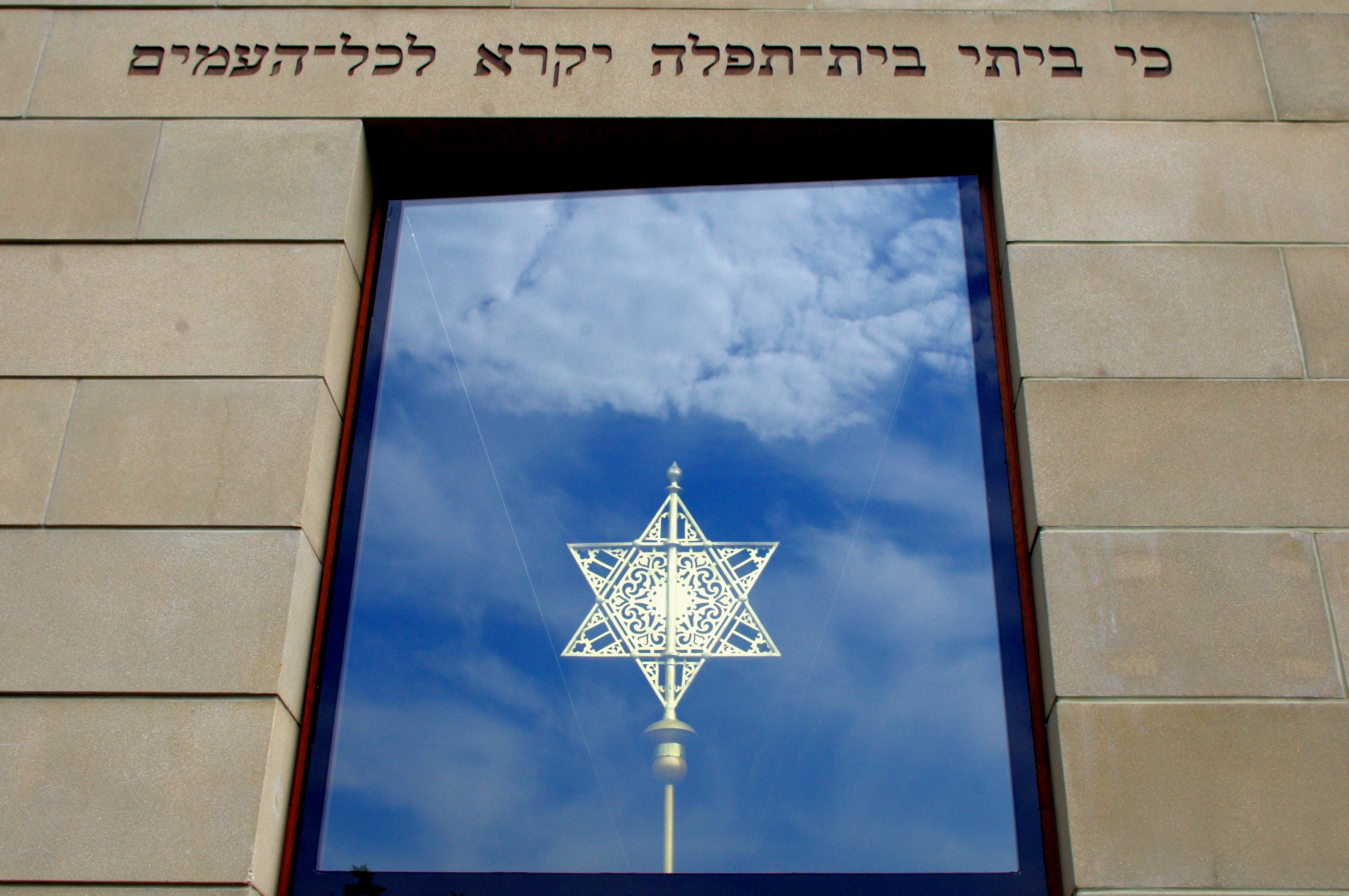 This is an image of the Star of David rescued from the Semper Synagogue, currently on display at the New Synagogue in Dresden.